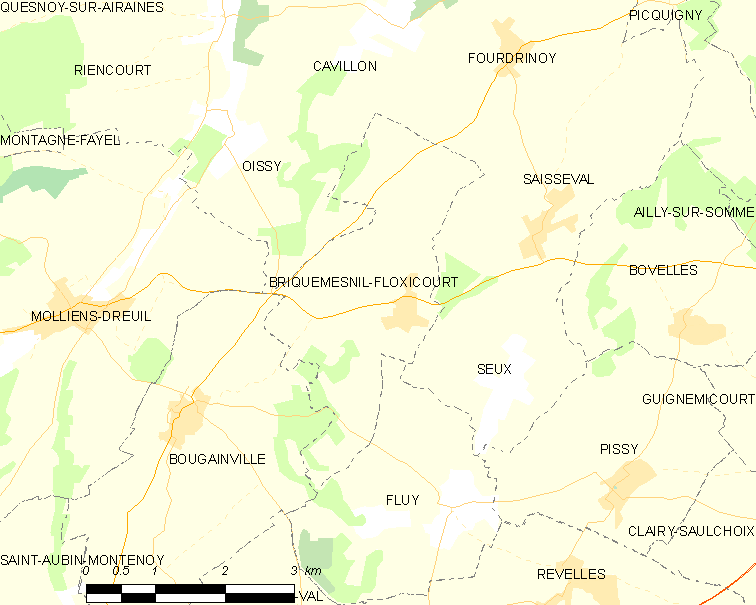 Map of French municipality Briquemesnil-Floxicourt